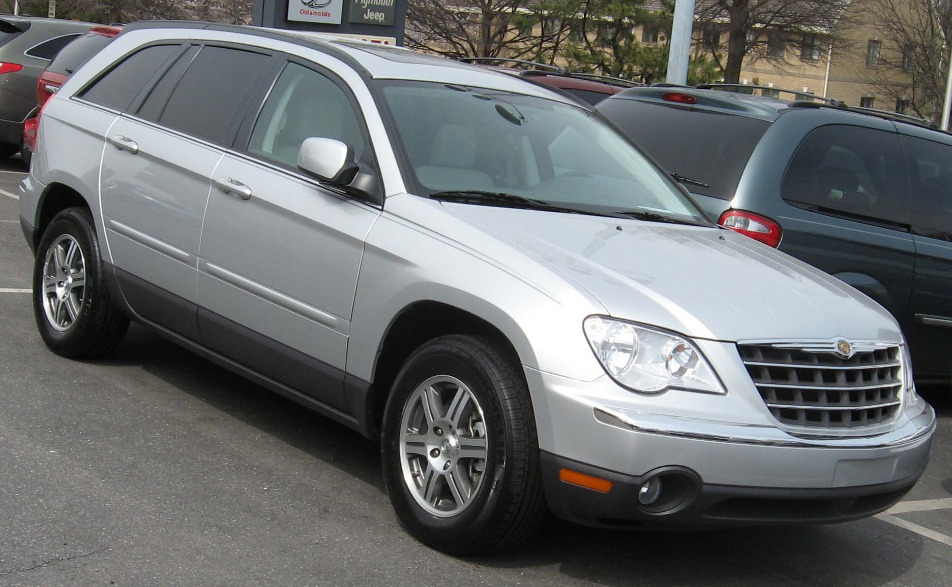 2007 Chrysler Pacifica photographed in USA.